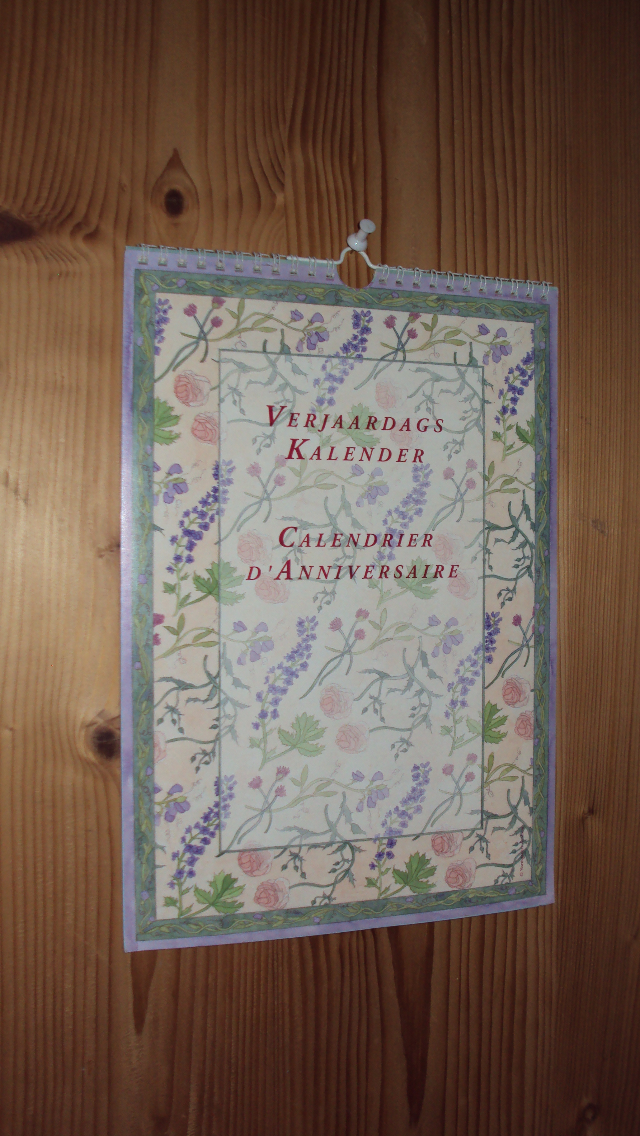 Birthday calendar, commonly used in The Netherlands for keeping track of birthdays or other anniversaries.